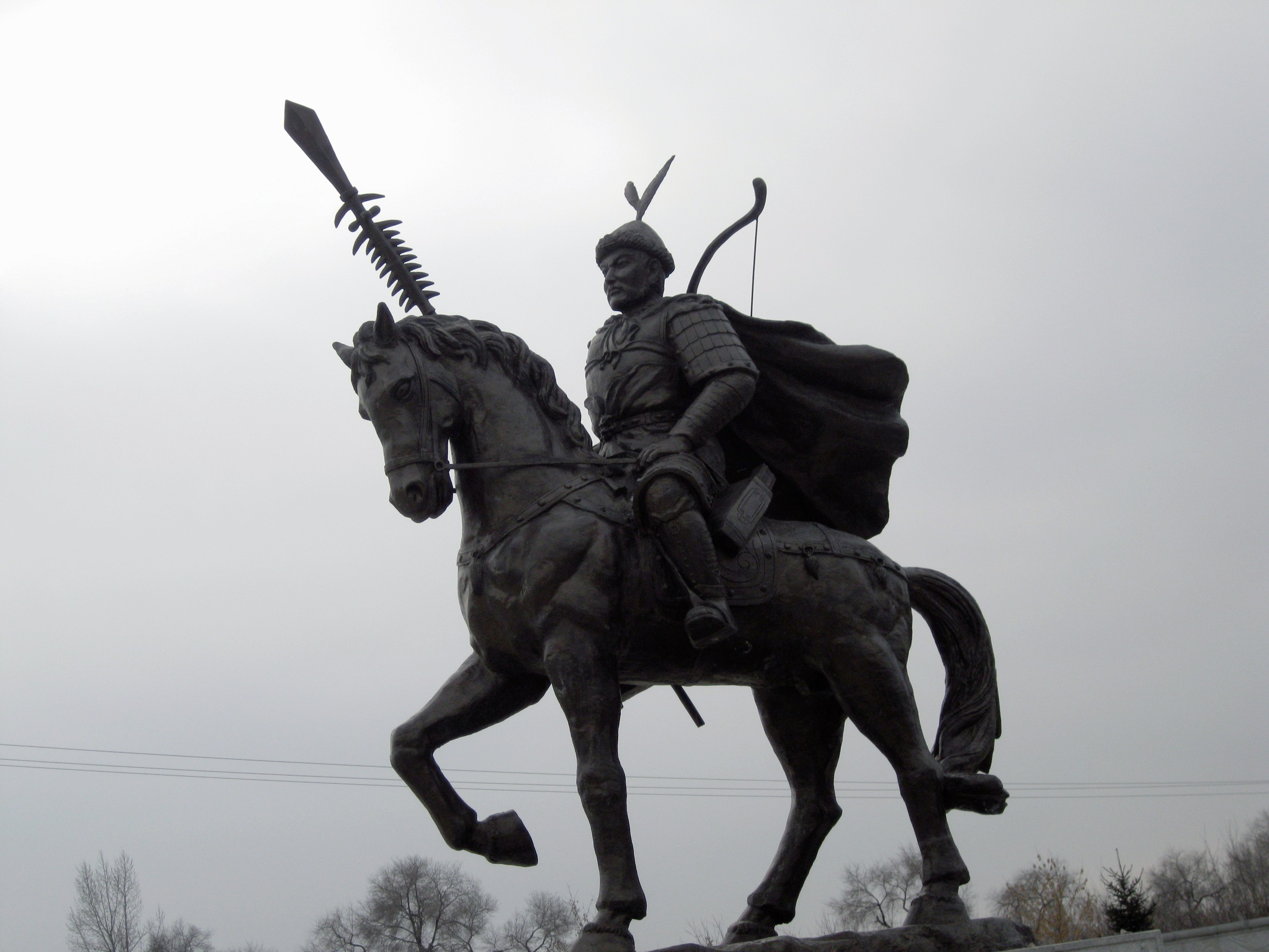 Monument of Wanyan Wuqimai, 2nd emperor of Jin dynasty. Museum of the First Capital of Jin (Harbin)